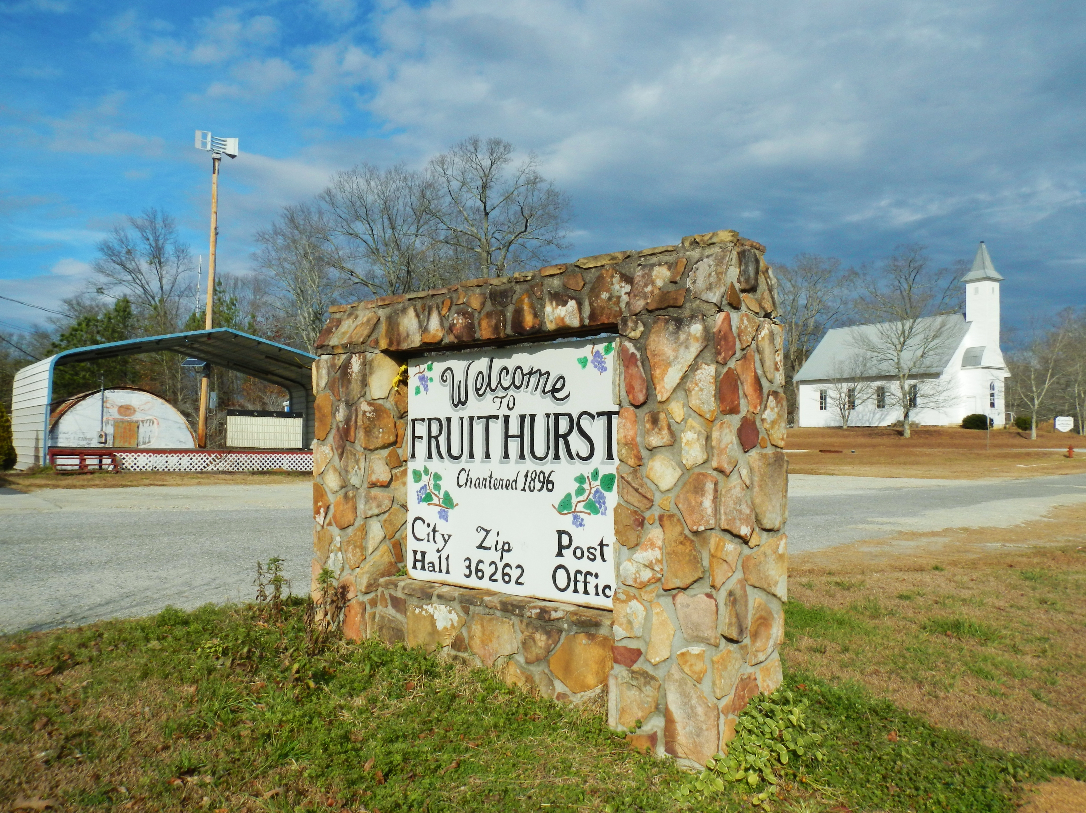 This is a photograph of Fruithurst, Alabama.